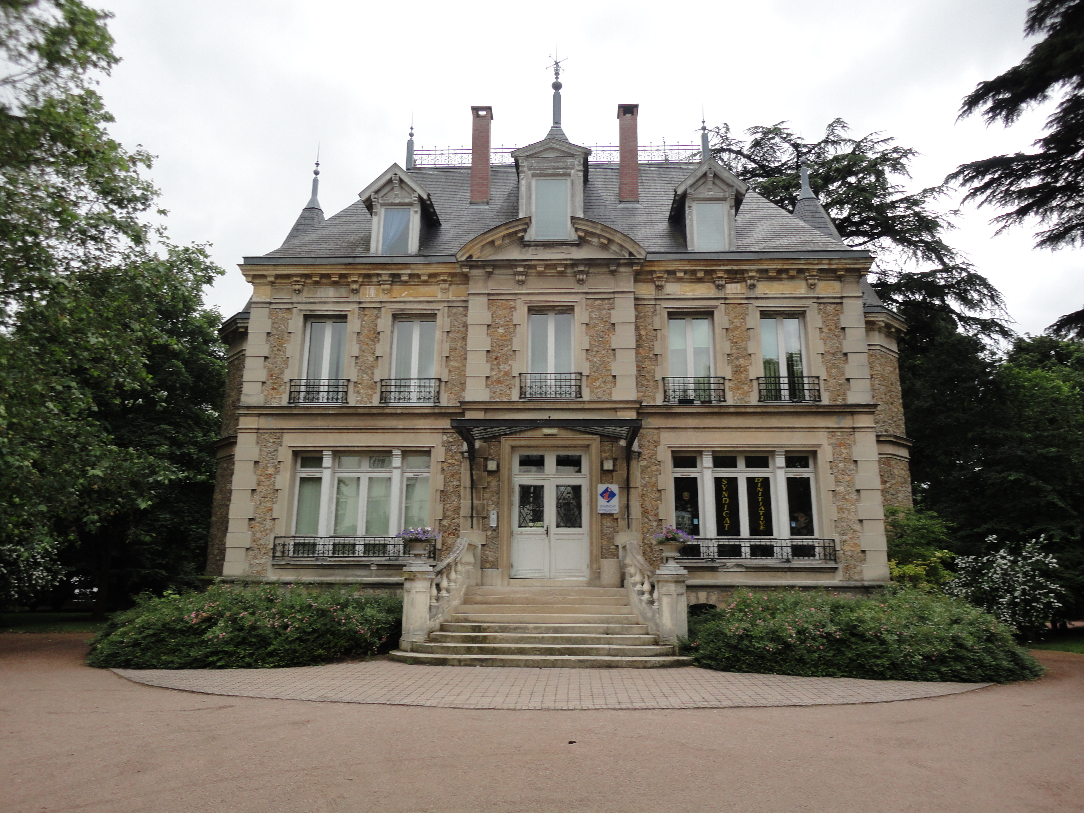 Charmettes Castle of Torcy